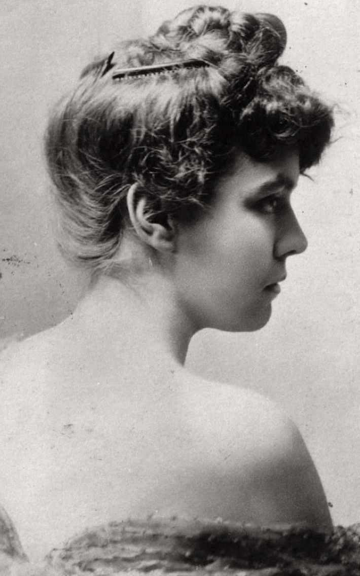 Mayo Methot on a Schloss "CPA Theater Stars" series postcard (language is French, though publisher, Schloss, is denoted as being in New York). Auction estimates 1901–1910, but it is ostensibly from c. 1920 based on Methot's age in the photo.